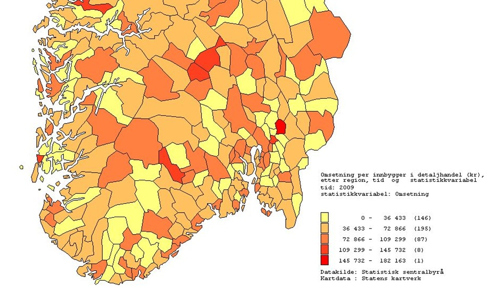 Retailing in South of Norway